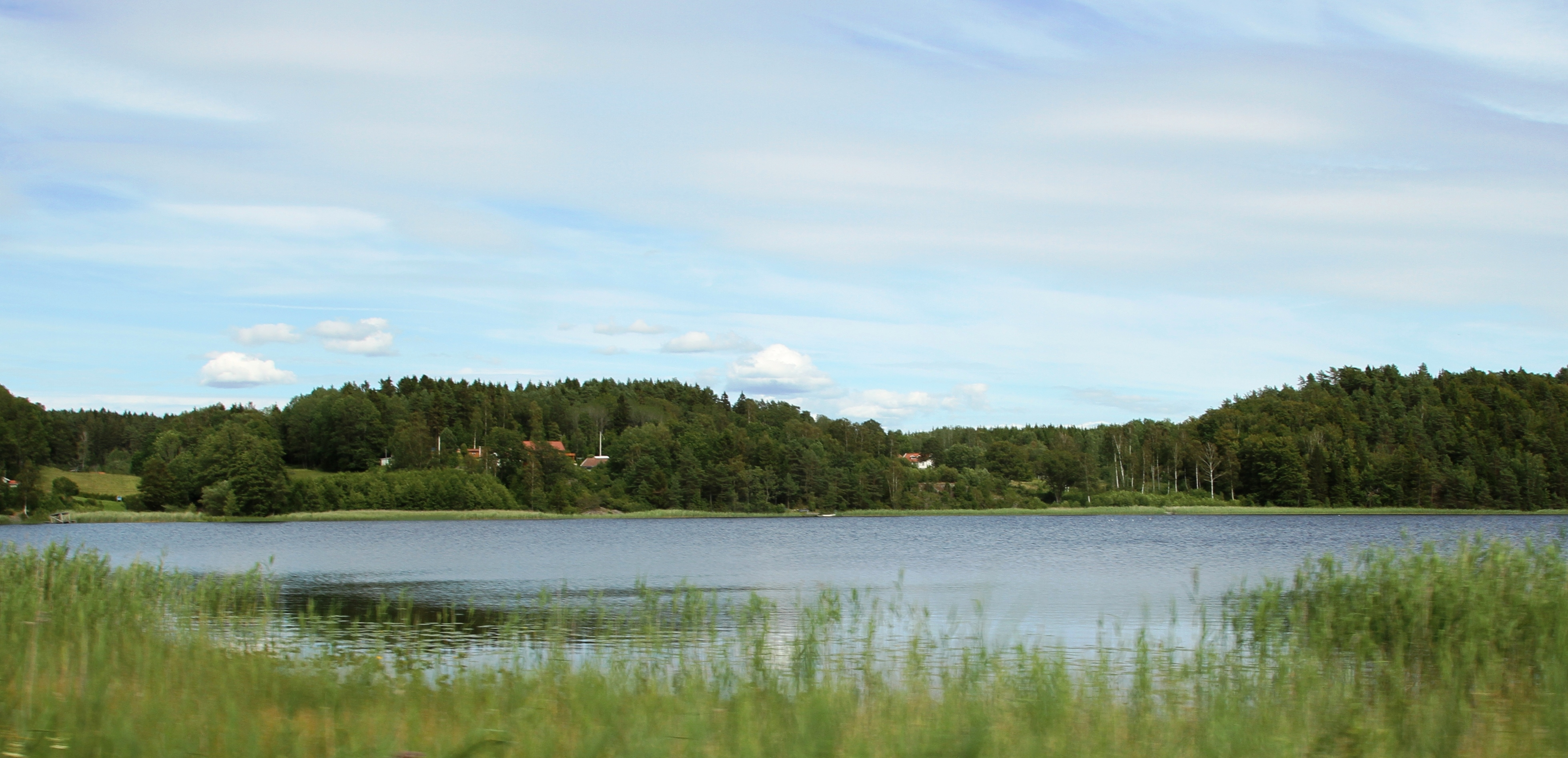 Image from the Skredsvik rural area of western Uddevalla municipality, on the Gullmarn Fjord, in west Sweden.